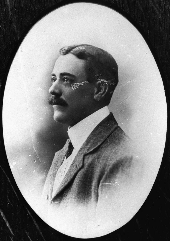 Councillor for Toowoomba Edwin John Godsall, ca. 1906. Edwin John Godsall was the second native-born Mayor of Toowoomba and the first whose father had also been Mayor. Born on September 30, 1871, Edwin Godsall was educated in Toowoomba at the South State School and Toowoomba Grammar School. After leaving the Grammar School in 1888, he was employed at the Toowoomba branch of the Union Bank. He left the bank in 1898 and joined the stock, station and commission agency of Gregory and Scholefield following the death of Mr Gregory. In 1906, Mr R W Weaver joined the firm and it became known as Scholefield, Godsall and Weaver. (Weaver later went to New South Wales where he entered State Parliament.).